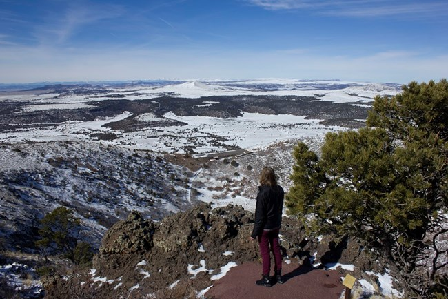 Hiking tail at capulin